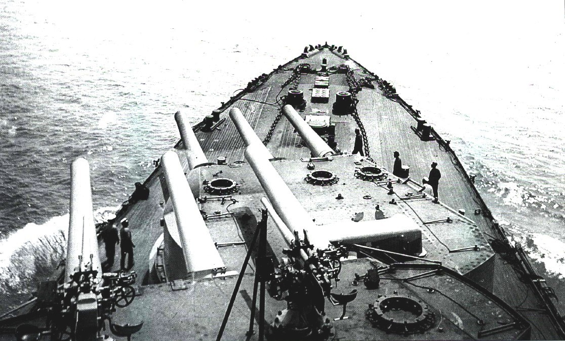 The cannons of SMS Prinz Eugen